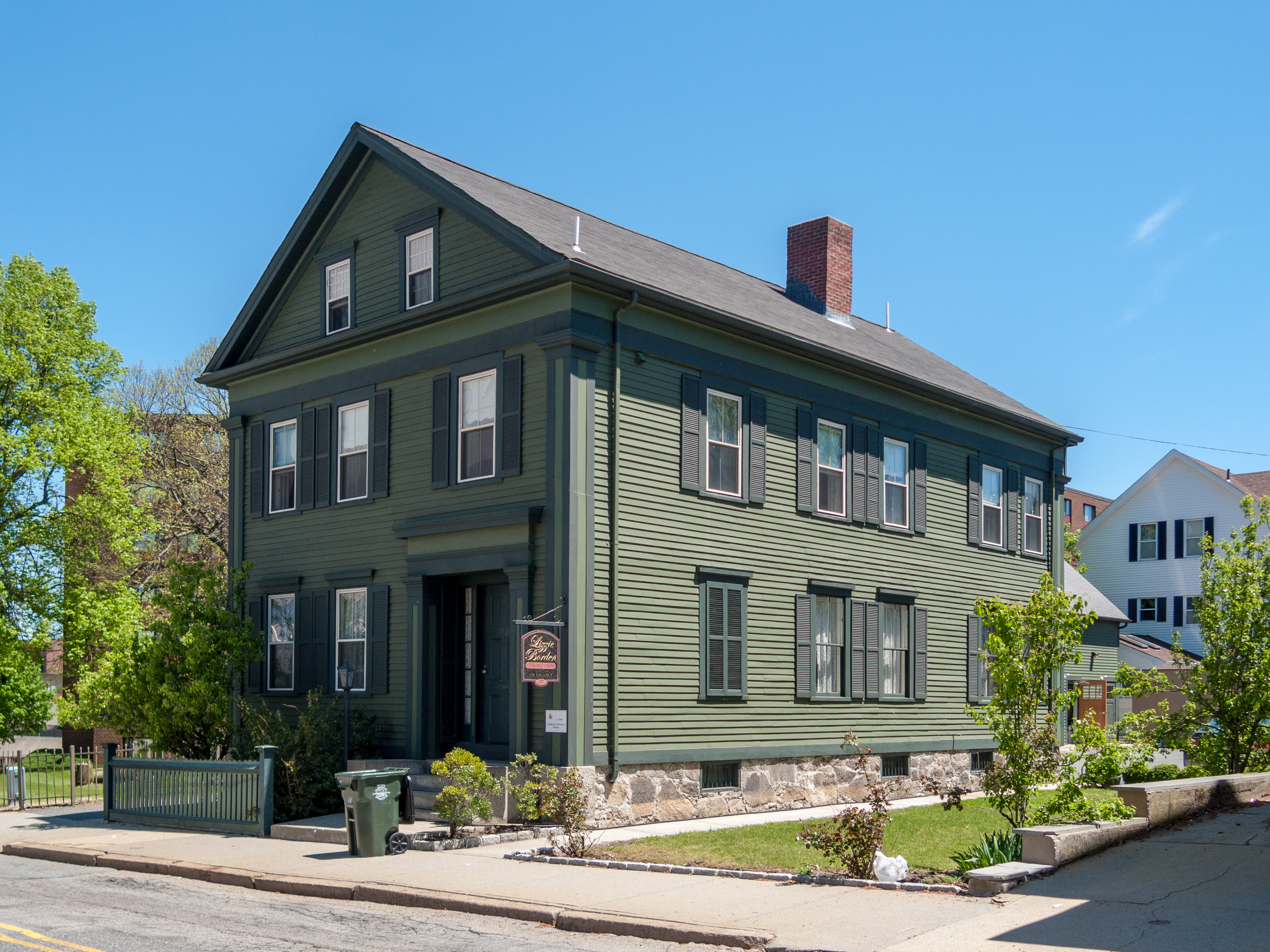 Lizzie Borden House, 2nd Street, Fall River, Massachusetts in 2017. Trash container in front of house.